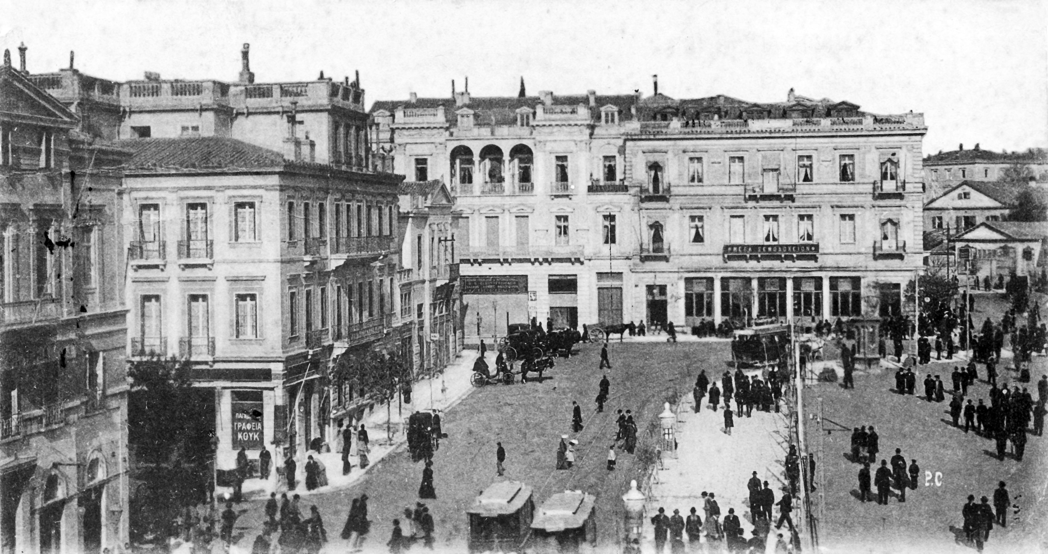 Syntagma Square, Athens 1905